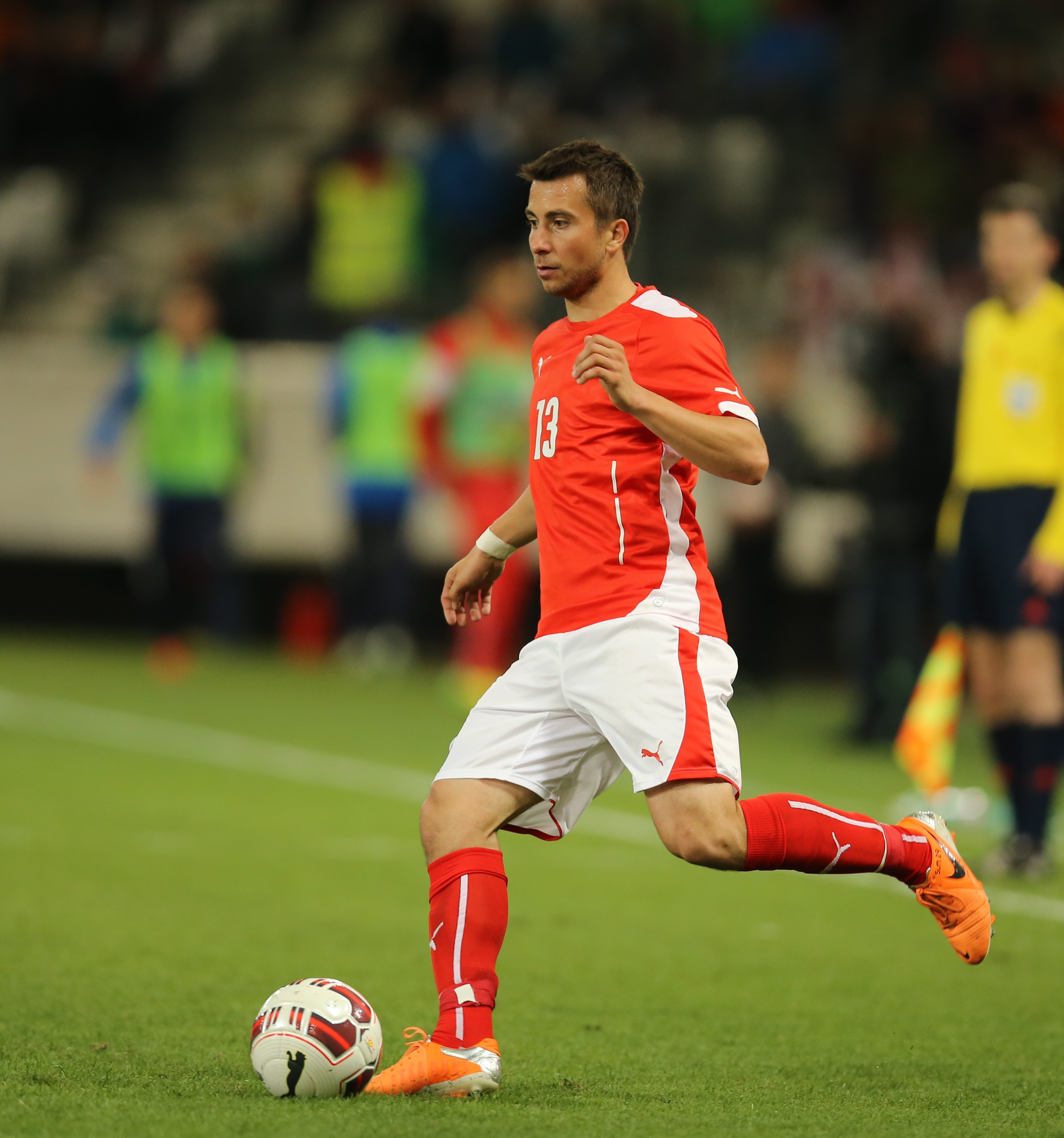 Austria - Iceland football match in Innsbruck, Austria on 2014-05-30. Austria in red, Iceland in blue.